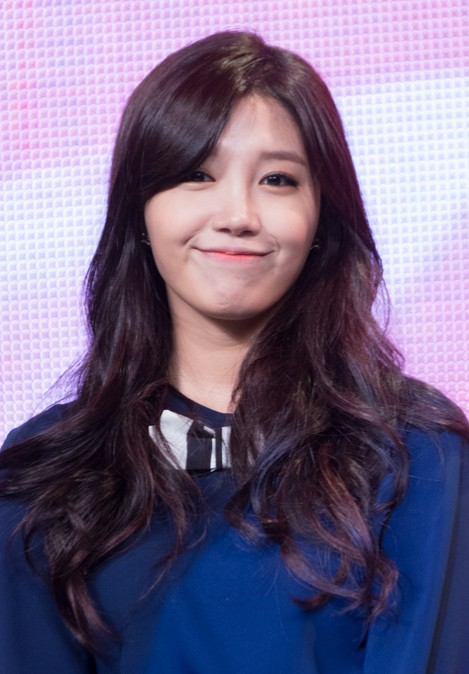 Jung Eunji at EMN Awards, 28 November 2013